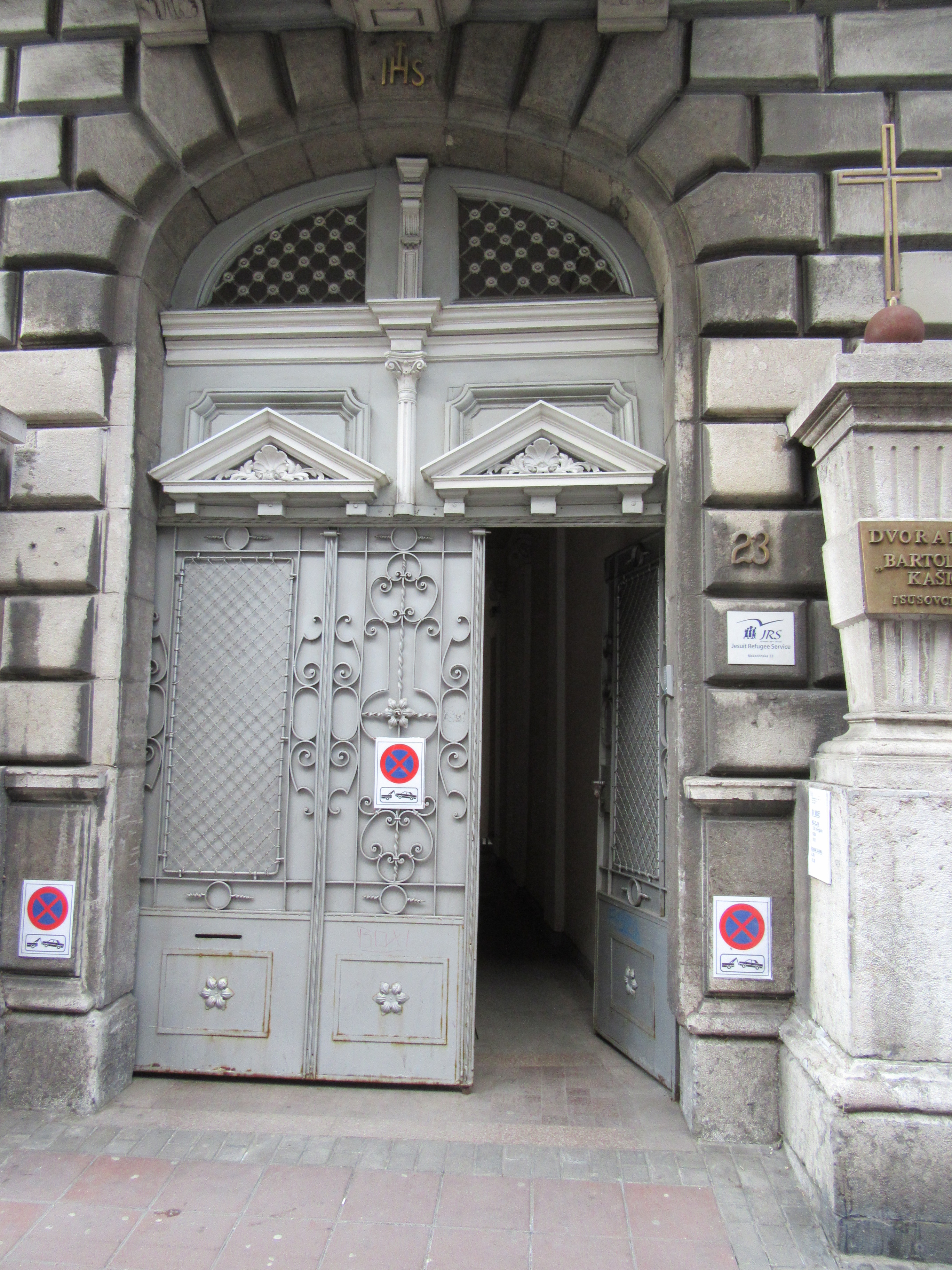 Church of St. Apostle Peter, entrance, Makedonska street, Belgrade, Serbia, 2019. Srpski (latinica): Crkva Sv. apostola Petra, ulaz, Makedonska ulica, Beograd, Srbija, 2019.